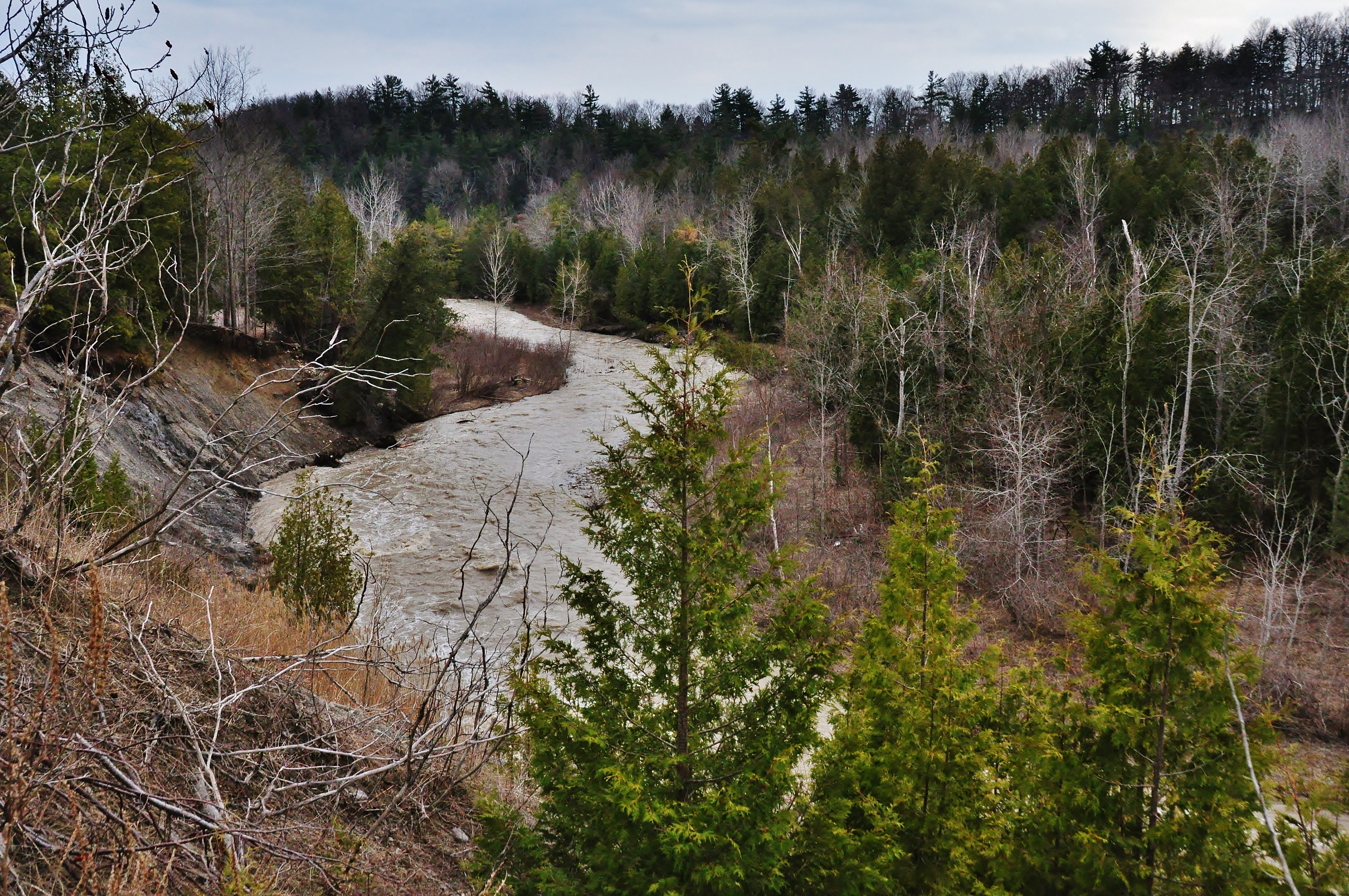 High water in the Little Rouge Creek in Rouge National Urban Park, Toronto, Ontario